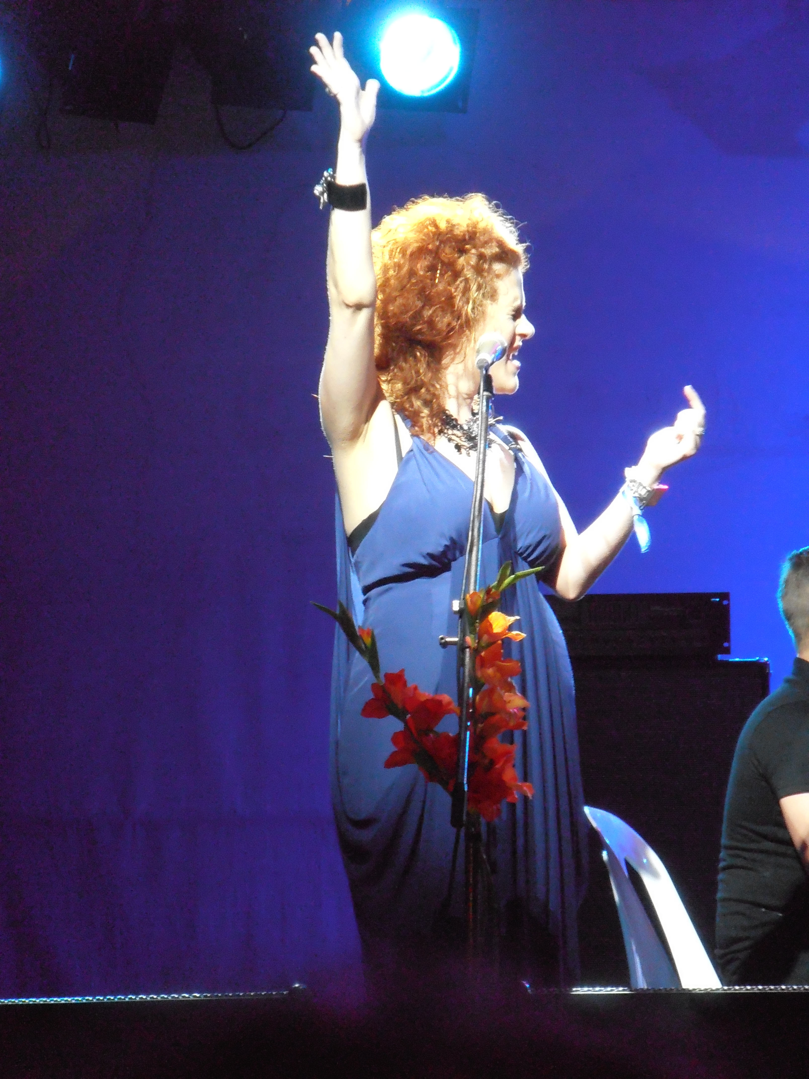 Katie Noonan performs with Elixir at the Woodford Folk Festival, 29th December, 2011